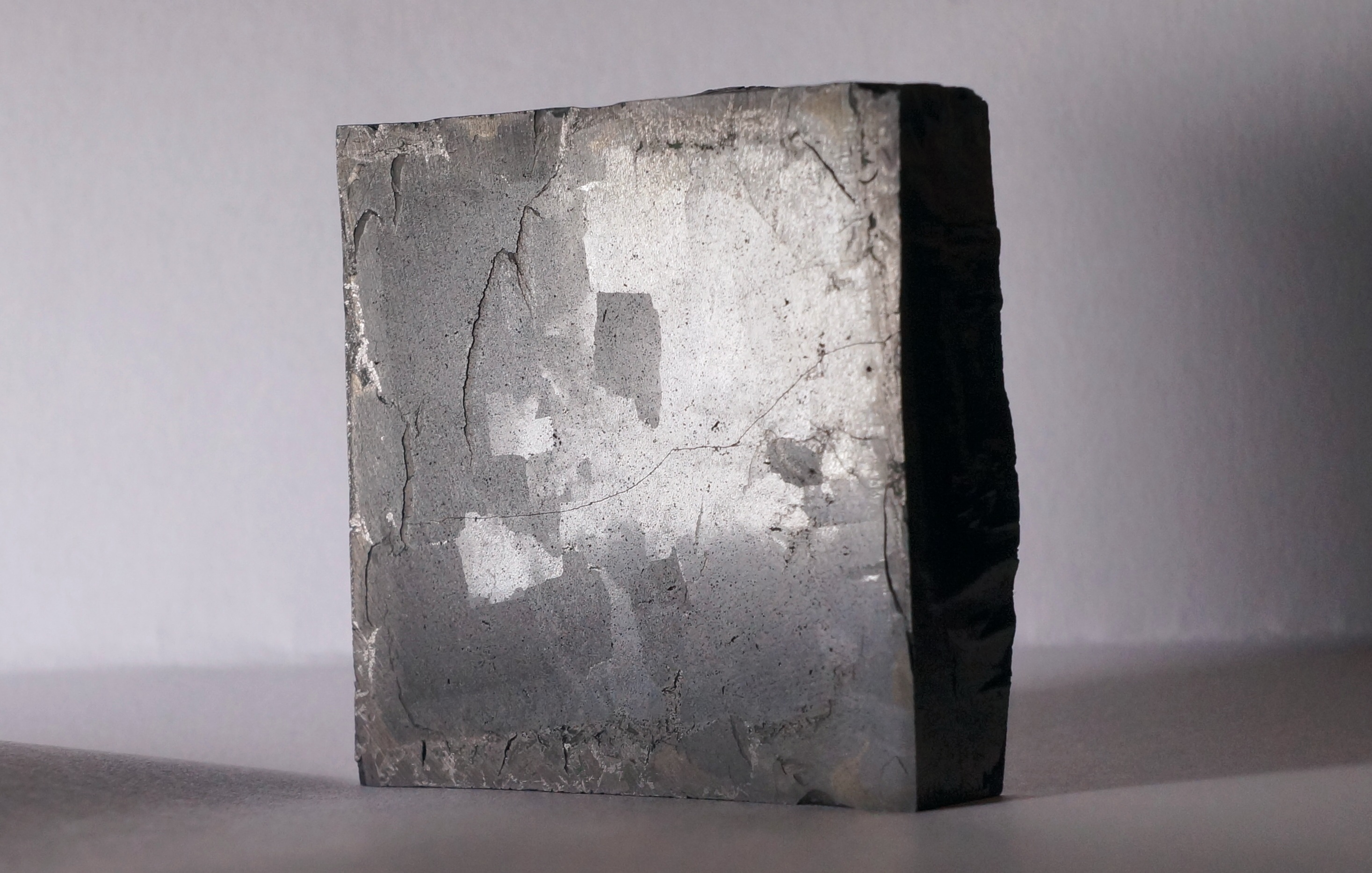 A superconductor or a high-temperature superconducting ceramics is an alloy of oxides of yttrium, barium and copper in proportions YBa2Cu3O7-x and abbreviated as YBCO. This piece dimensions in 4x4x1 cm. On the picture you can see the crystalline structure of this ceramics.